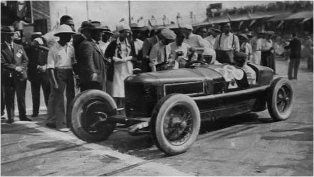 Alfa Romeo P2 at the third (III) Coppa Ciano outside Livorno on Monday (?) 29 July 1929 (or Sunday 21 July, says SNellman:[1]), driven to VICTORY by Achille Varzi.[2] There is an unknown co-driver sitting next to Varzi. They raced for the "Societá Anonima Italiana Ing. Nicola Romeo e C." team, and completed the 225 km (10x22,5 km) in 2 hours 34 minutes and 51 cents.[3]